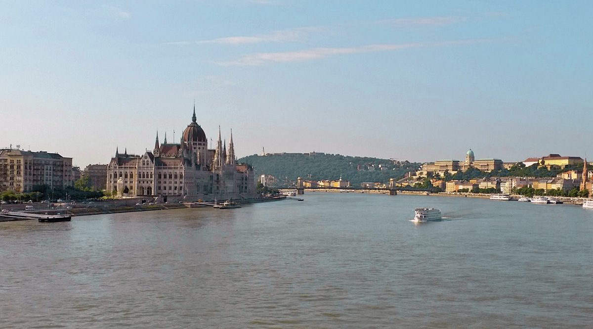 Hungarian Parliament Building from Margaret Bridge, Budapest